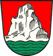 Coat of Arms of Bad Griesbach i.Rottal